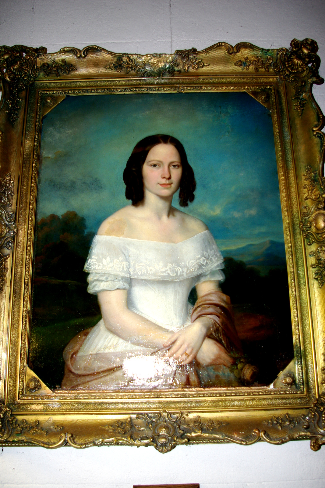 Photo of an anonymous oil portrait in St Mary's Church, Wreay, depicts its architect, Sarha Losh (1785-1853), in early adulthood.